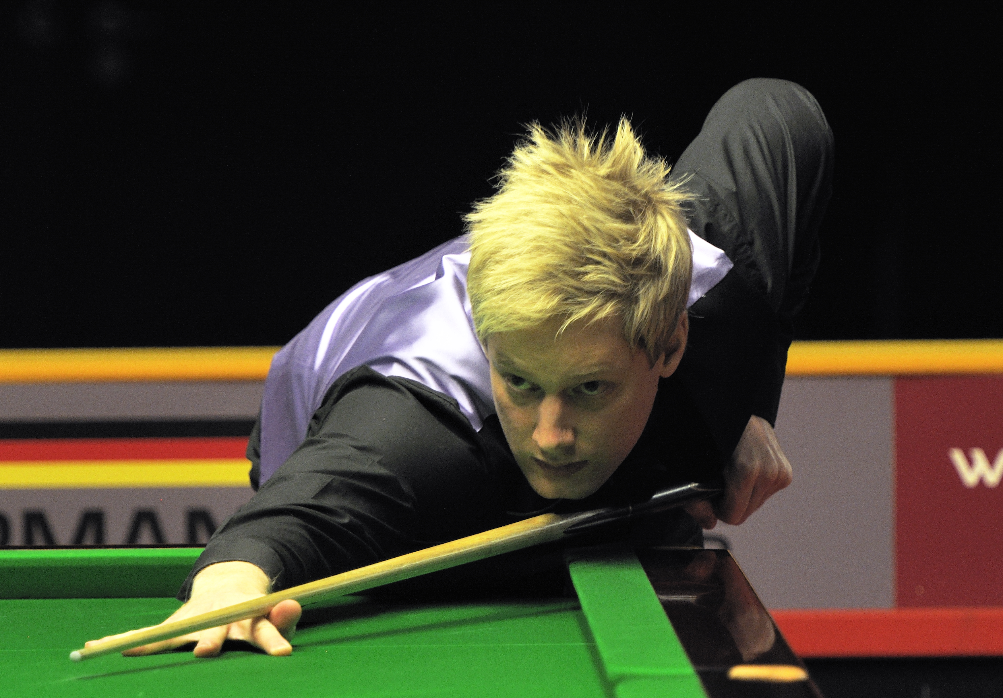 Picture taken in Berlin during the Snooker German Masters in 2014. Neil Robertson.